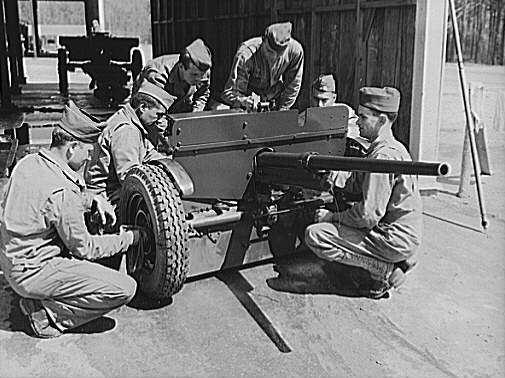 Anti-tank gun crews at Fort Benning. Crew of an M3 37mm anti-tank gun in training at Fort Benning, Georgia clean and adjust their weapons.